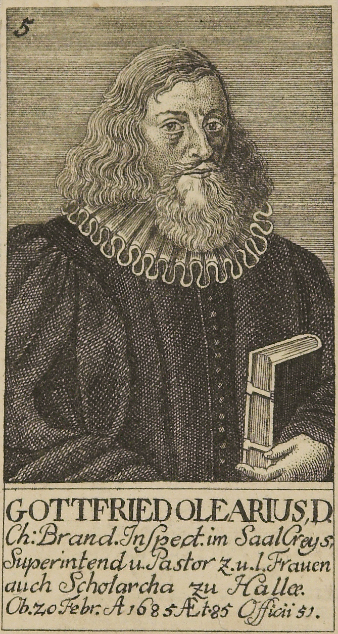 Gottfried Olearius (1604–1685), German Theologian and Chronicle; copper engraving